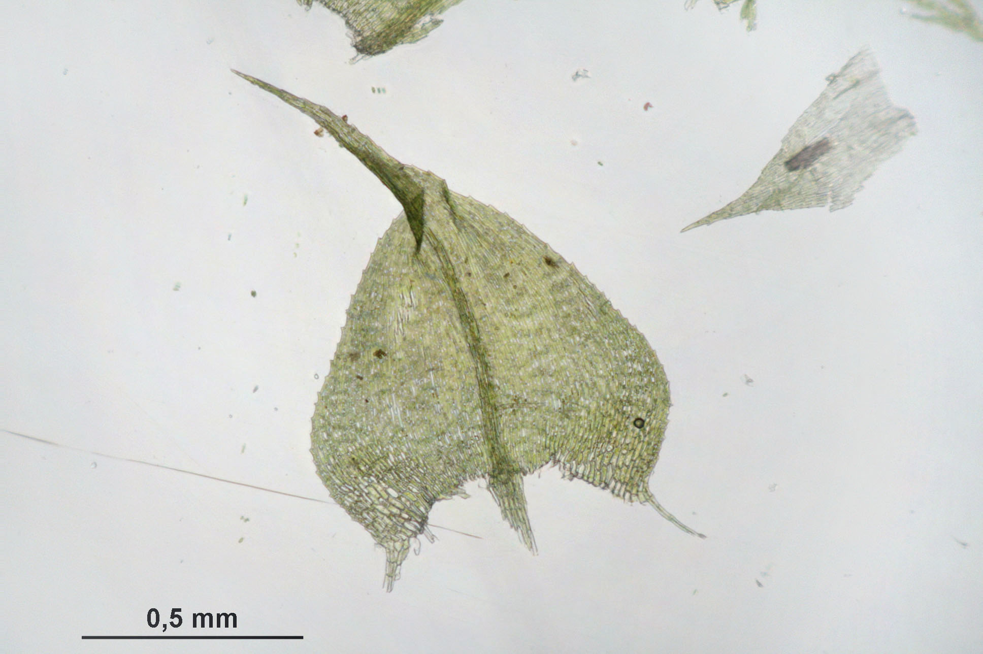 Kindbergia praelonga